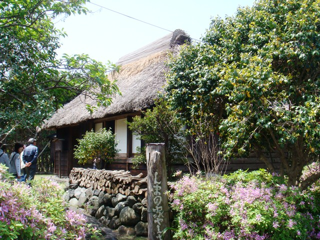 A traditional residence preserved at the garden of the Local History Museum, Izu Oshima, Tokyo, Japan.